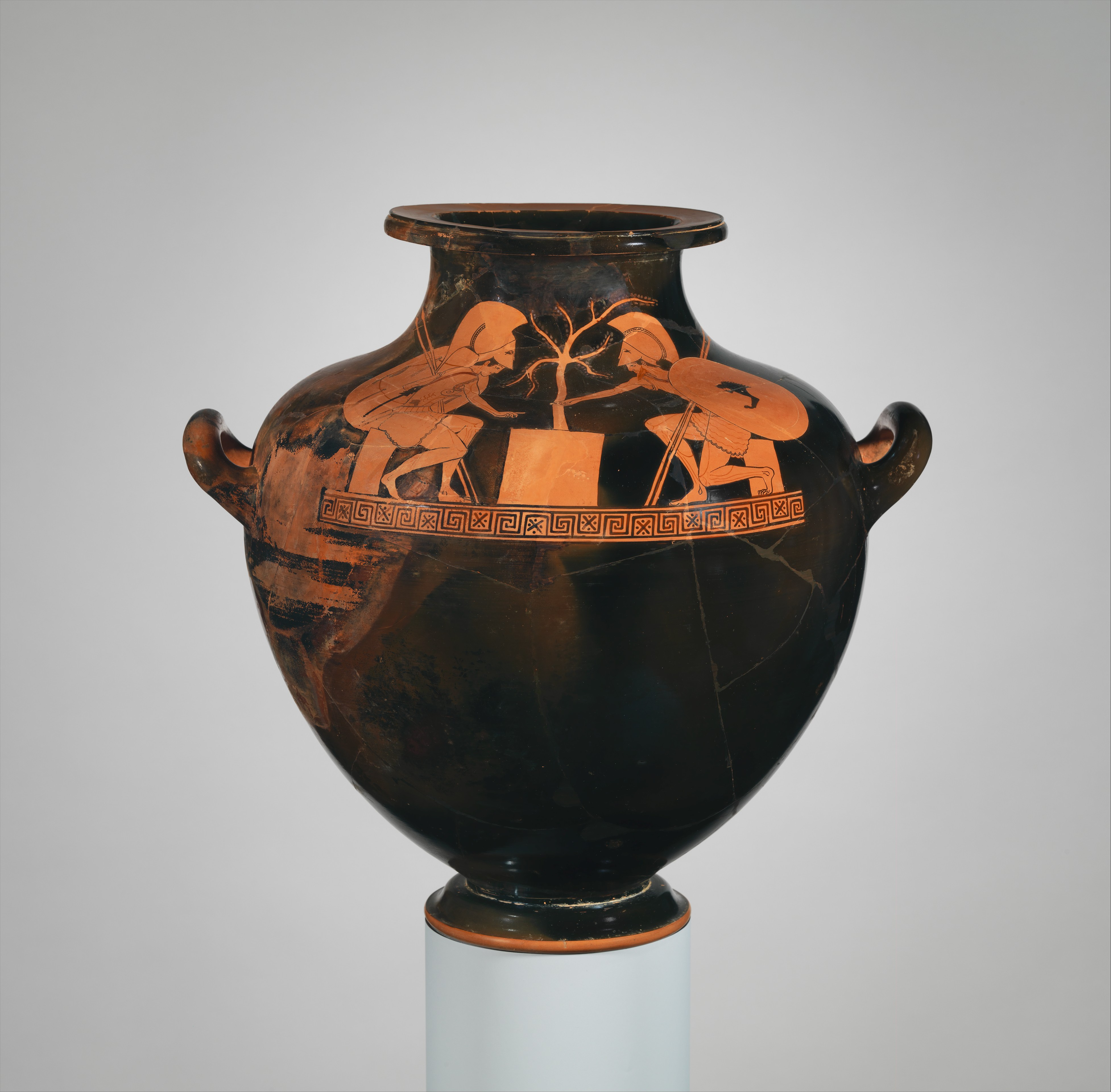 Full image: Attic Red-figure Hydria depicting Ajax and Achilles gaming, ca. 490 BCE. Attributed to the Berlin Painter. Image Source: Met Museum of Art Pub Domain Image